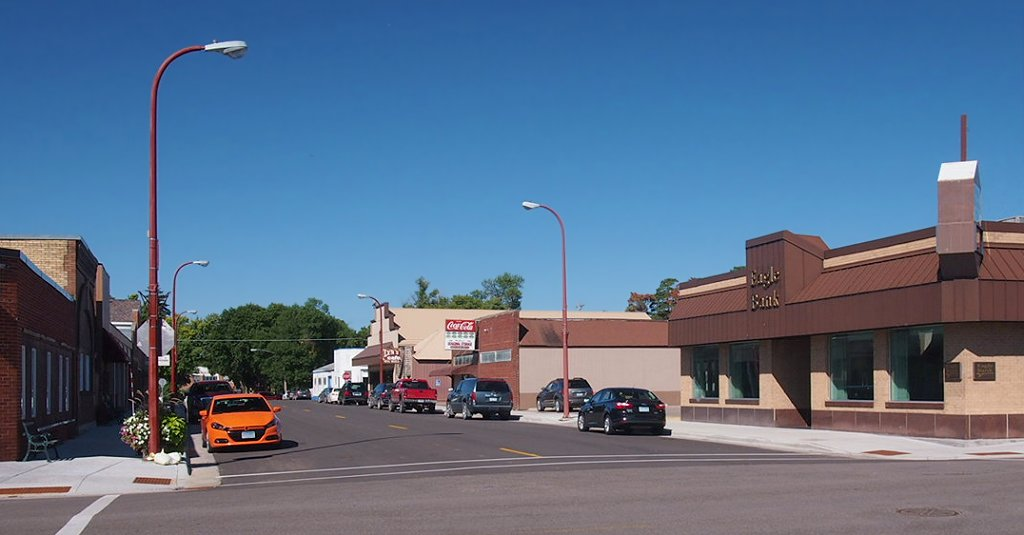 Looking west down West 5th St from Minnesota State Highway 29, Starbuck, Minnesota, USA.